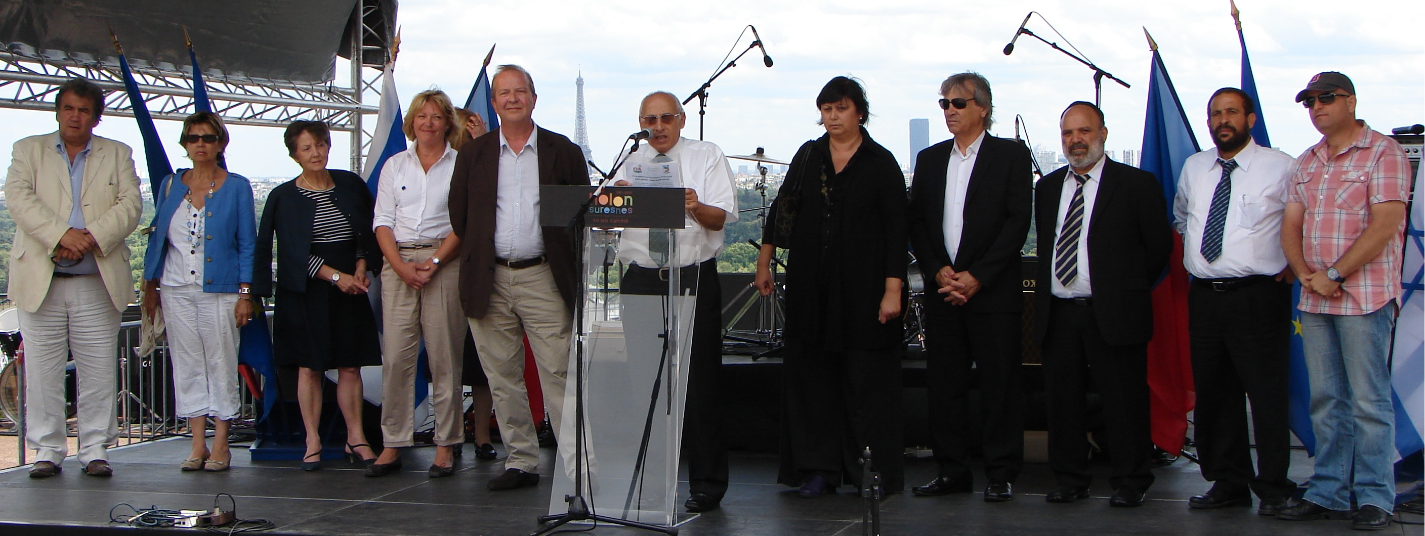 Twin towns or sister cities Suresnes and Holon